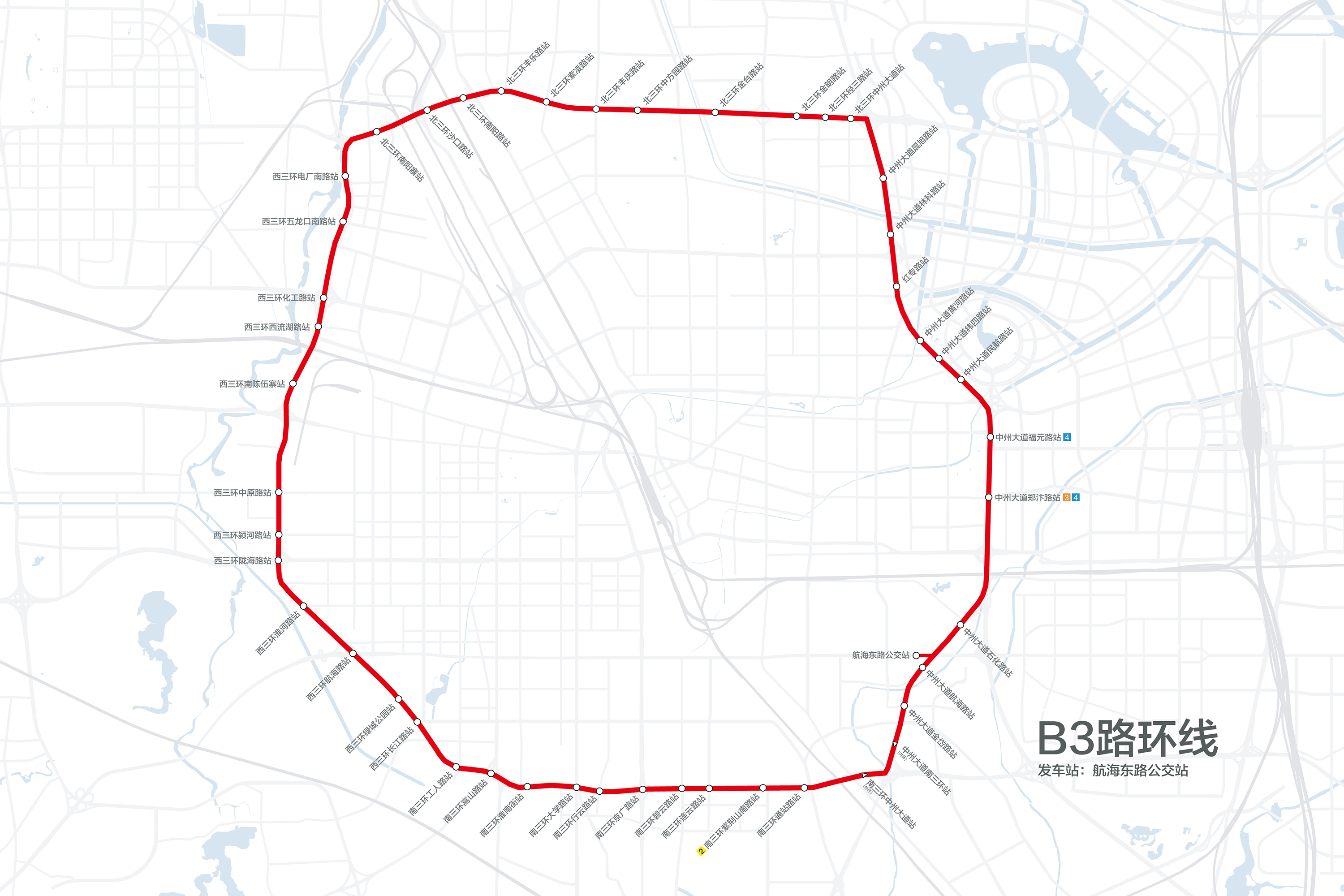 Route map of Zhengzhou BRT Route B3